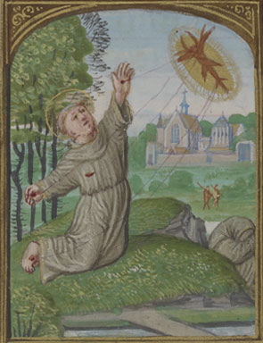 St. Francis Receiving the Stigmata, detail, Book of Hours, Rome use, in Latin, Belgium, probably Bruges, ca. 1525–30. The Morgan Library & Museum